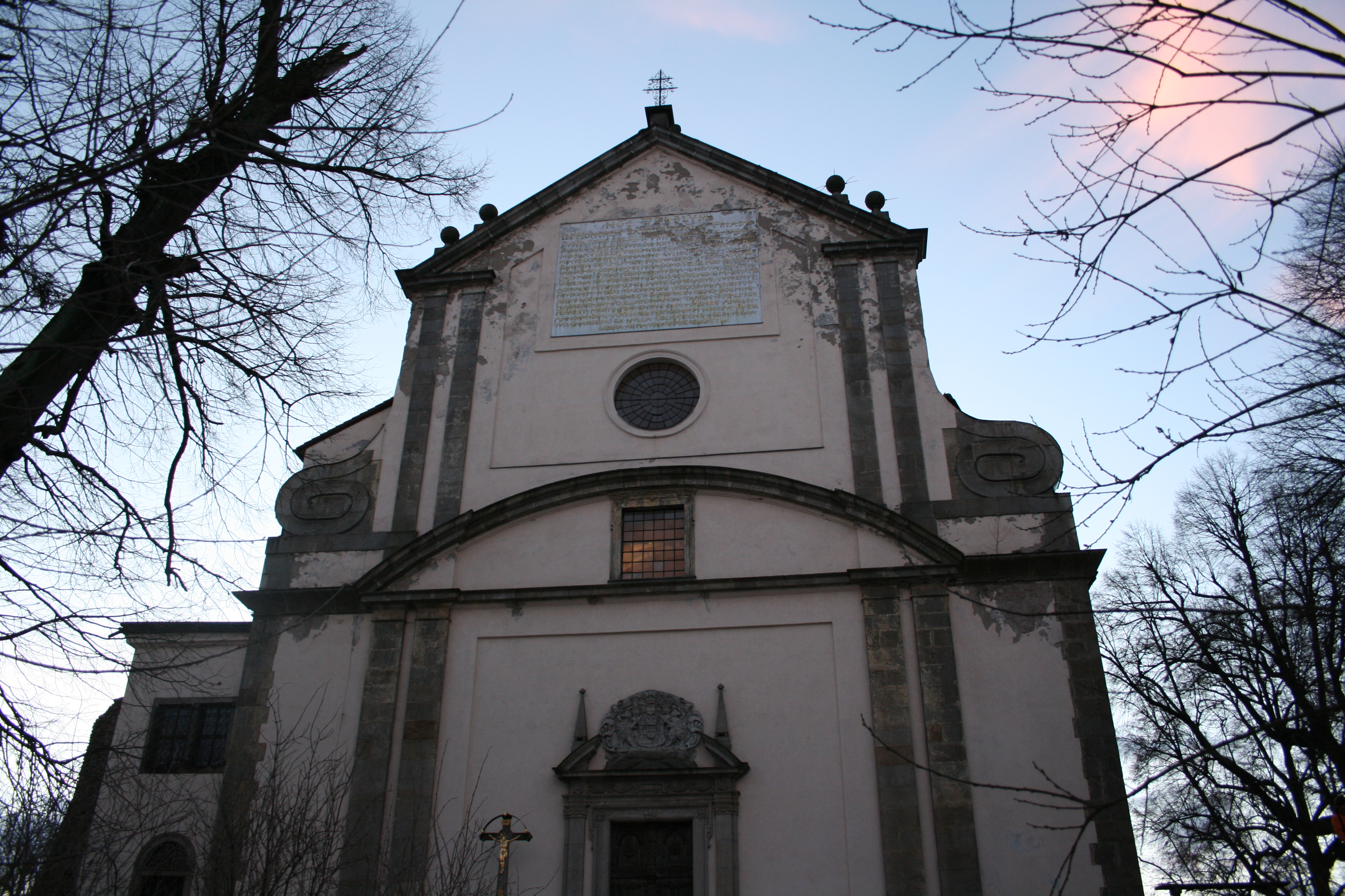 Klášter, part of Nová Bystřice, Jindřichův Hradec district, Czech Republic.